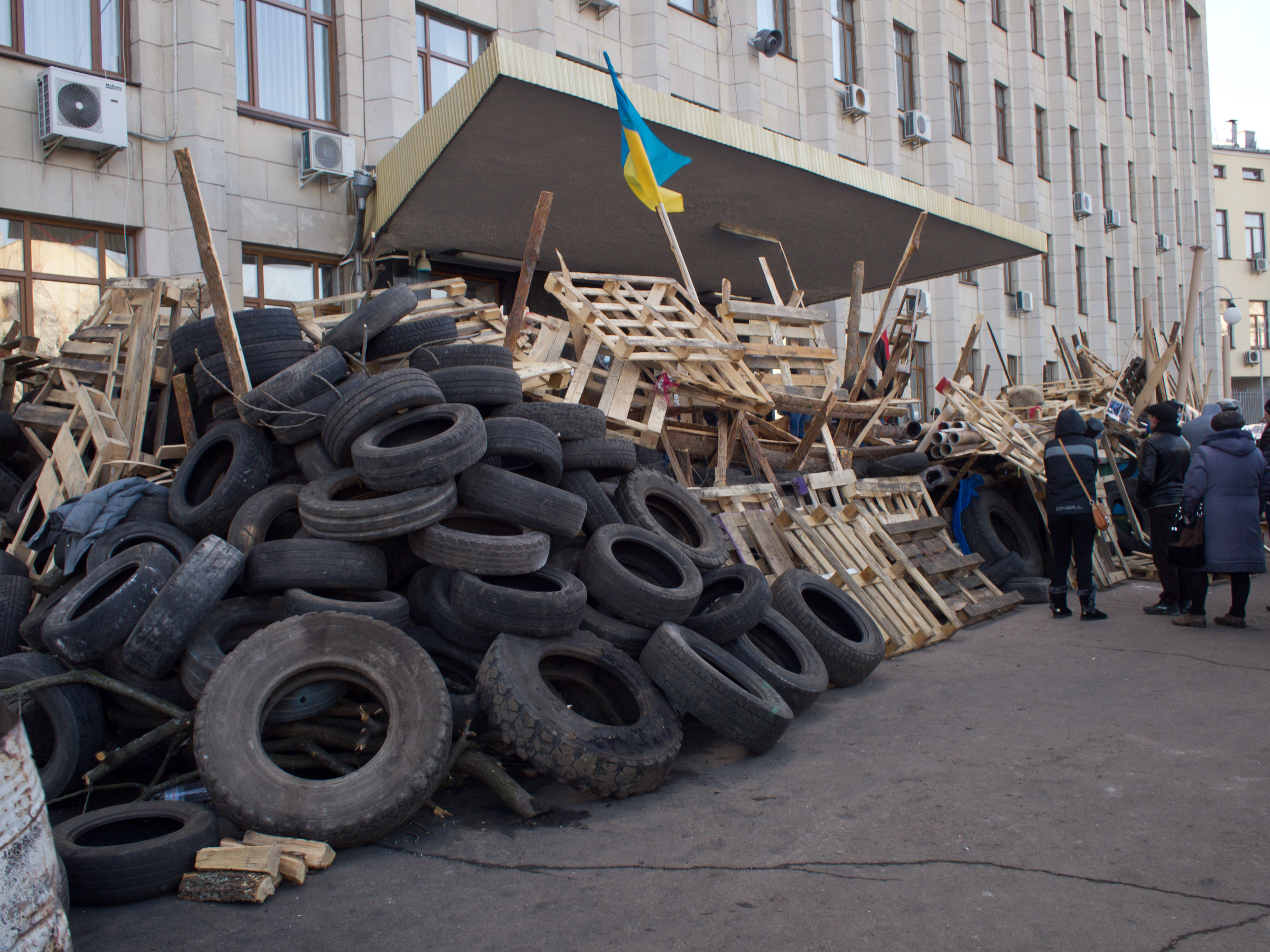 Euromaidan in Zhytomyr, 21 February 2014.